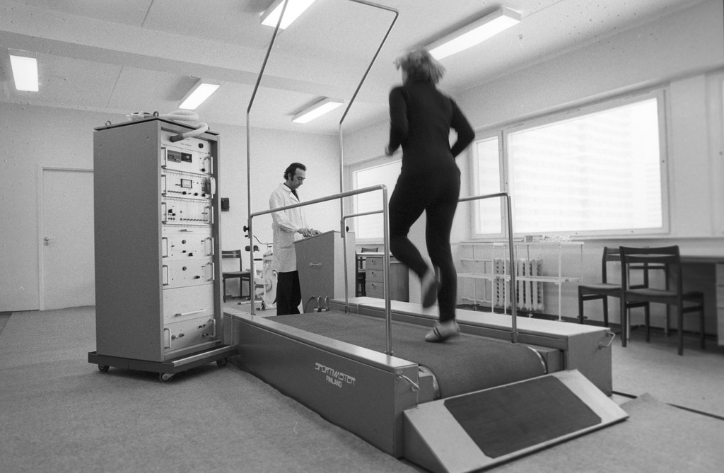 “Testing on treadmill”. Testing on a treadmill at the functional diagnosis and sports test room at the medical center of the Olympic village during the 22nd Summer Olympic Games (July 19 - August 3).